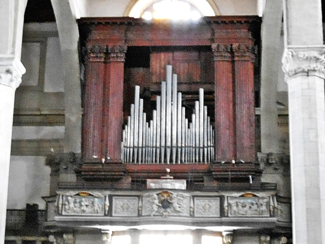 pipe organ